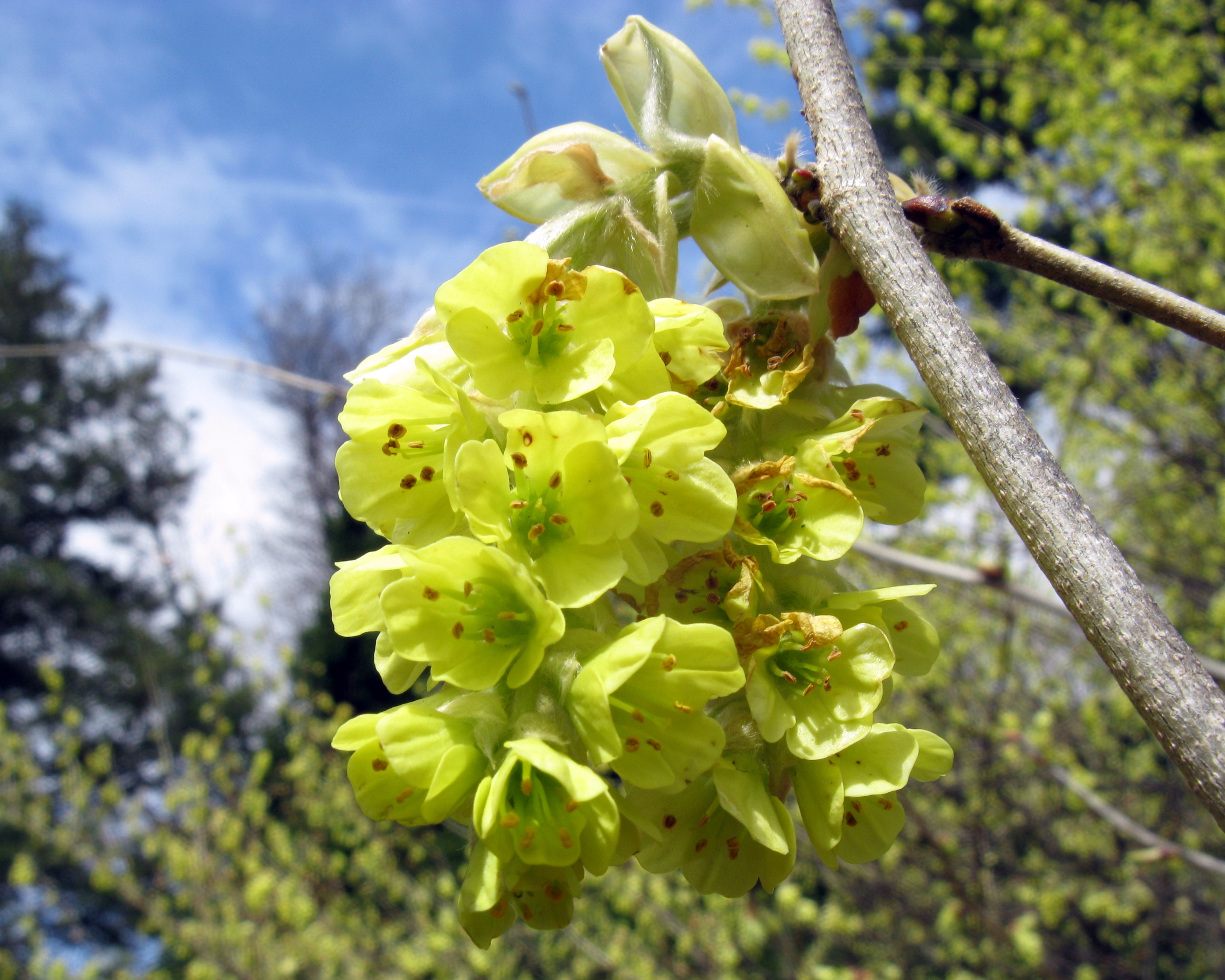 Corylopsis sinensis